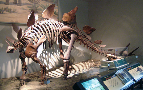 Stegosaurus at the Field Museum of Natural History in Chicago